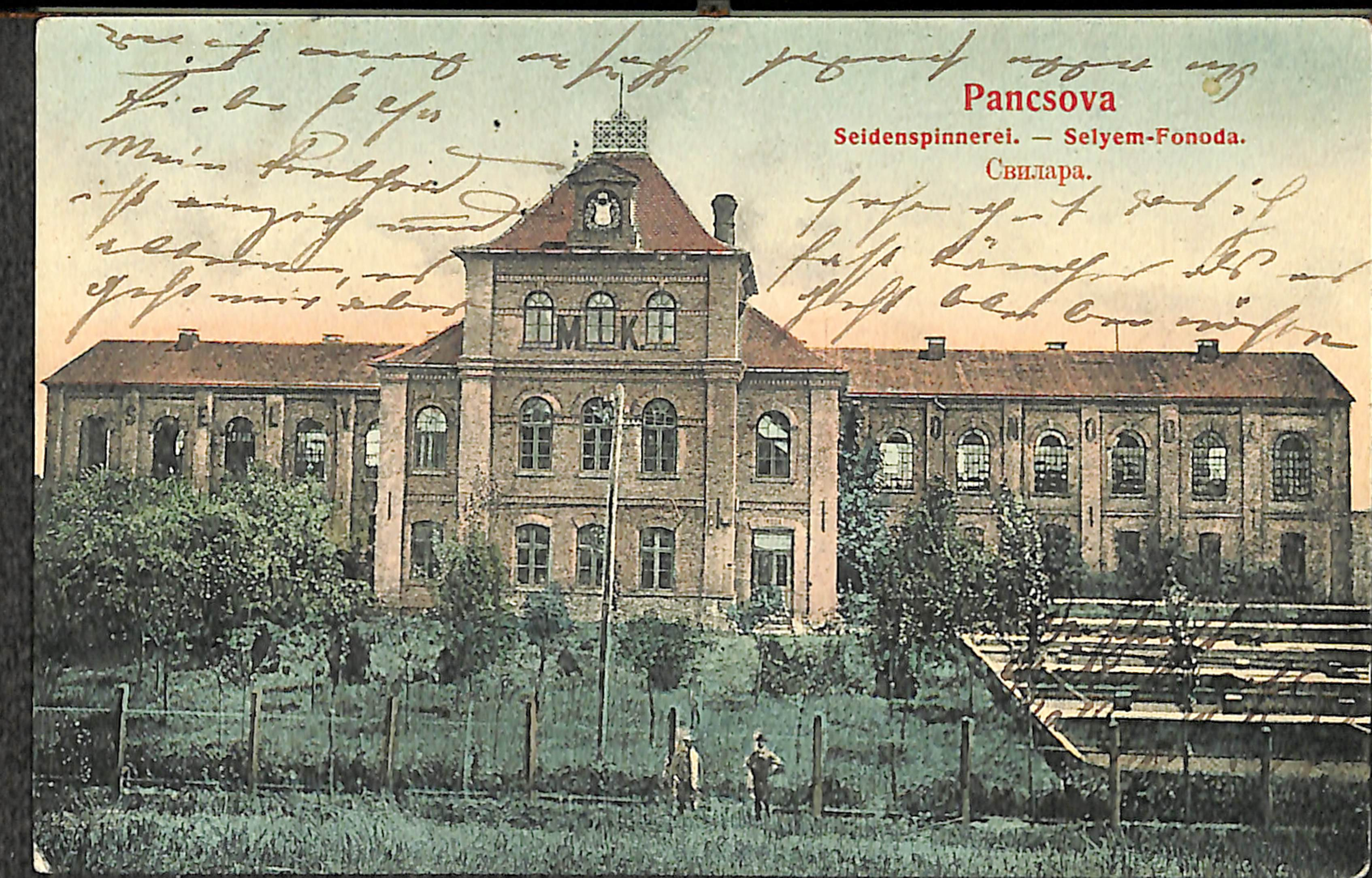 The building of the former silk factory in Pančevo